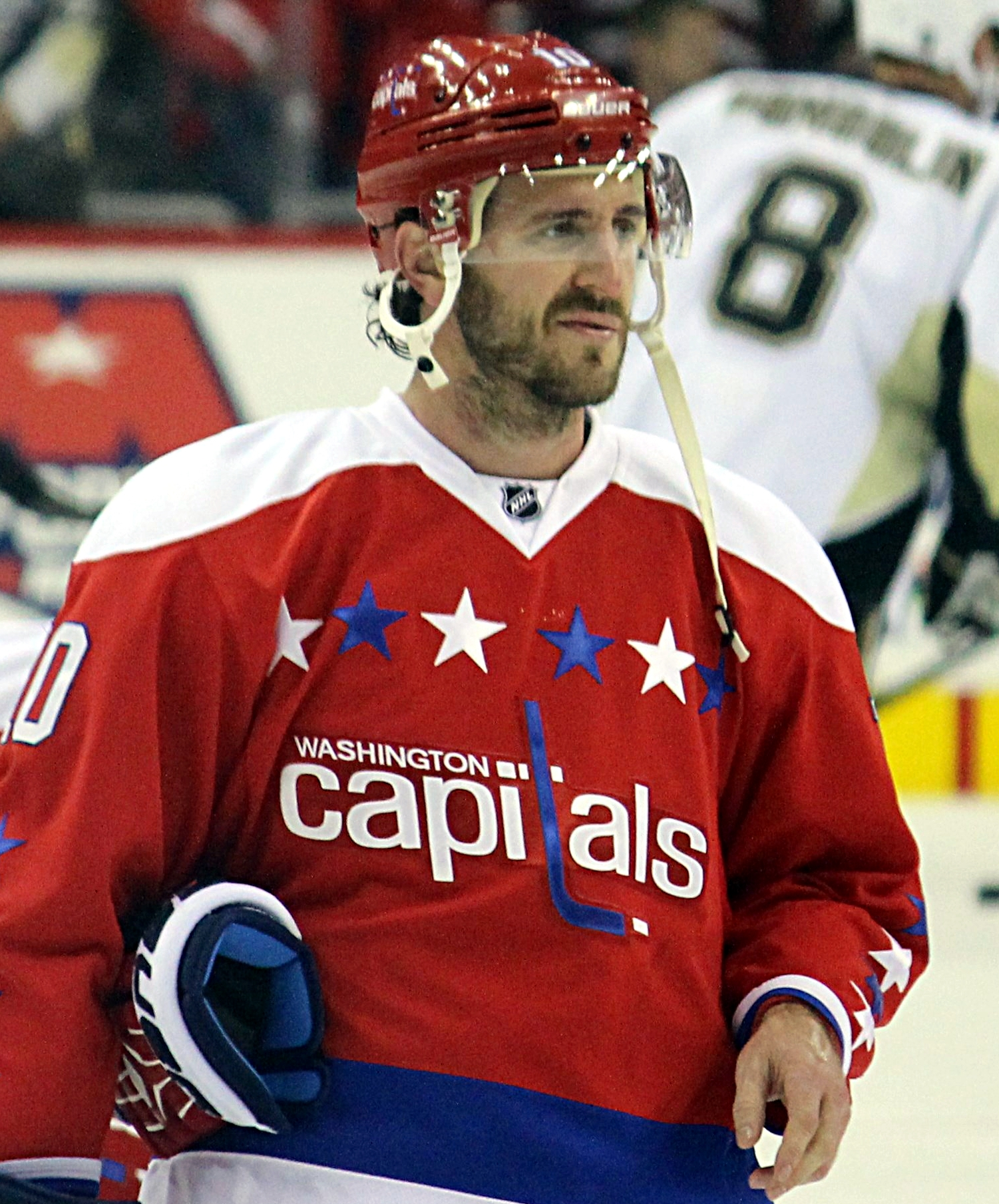 Washington Capitals forward Mike Richards during a game against the Pittsburgh Penguins, Thursday, April 7, 2016 at Verizon Center in Washington, D.C.